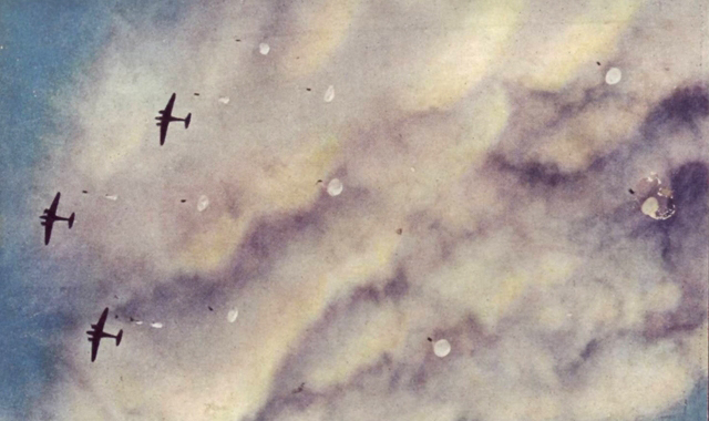 Imperial Japanese Army paratrooper are jumping out of their planes over Palembang airfield, February 13, 1942.